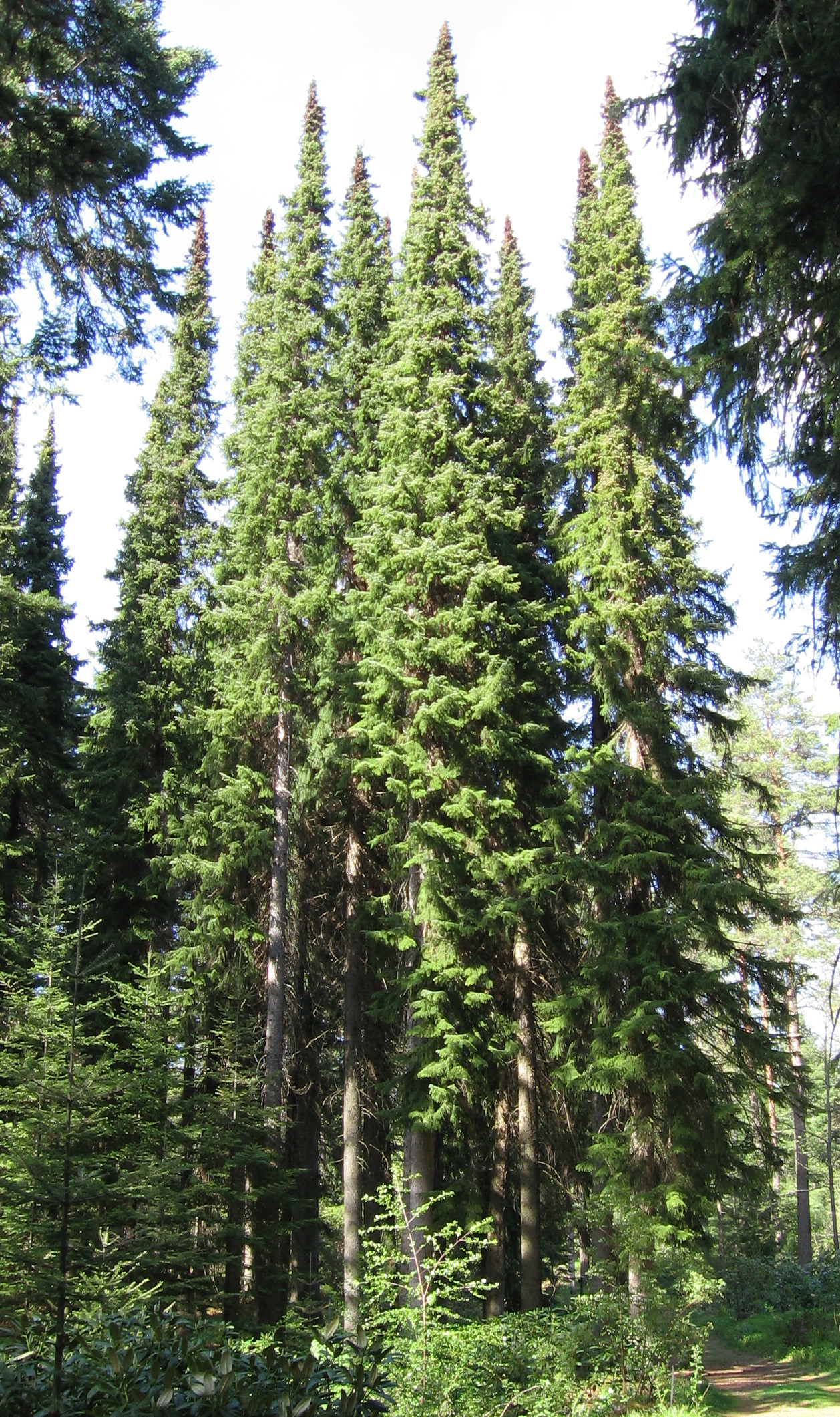 Picea omorika, Arboretum Mustila, Finland